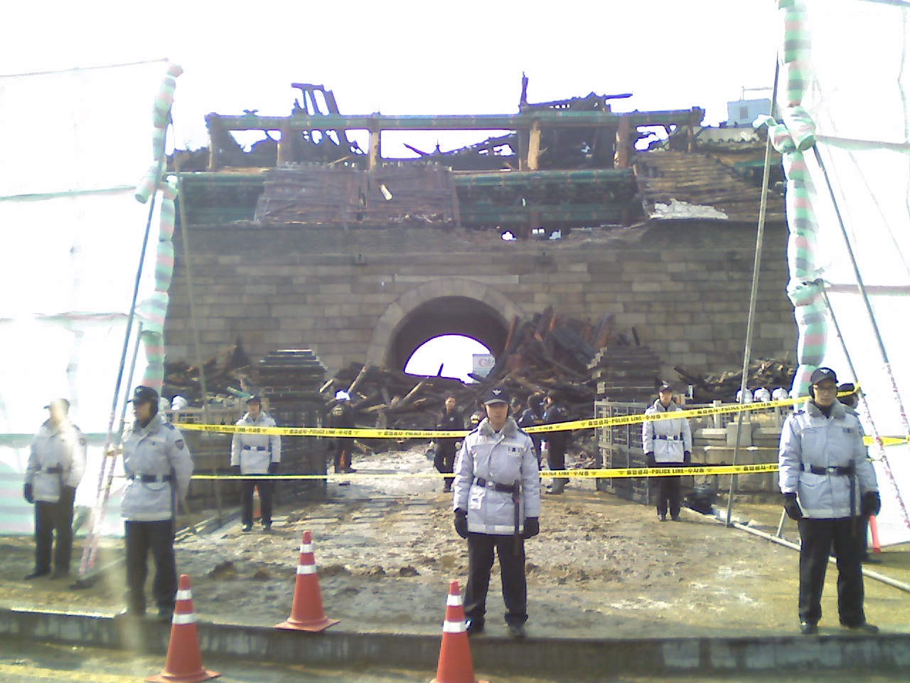 Sungnyemun after collapsed by fire.